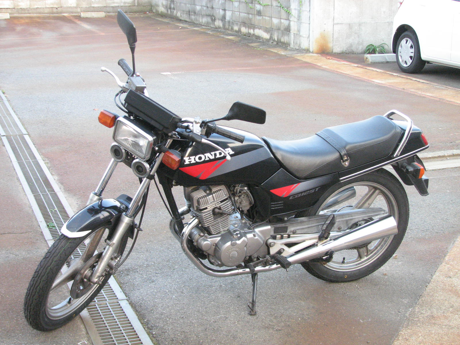 CB125T is a motorcycle manufactured by Honda A.D.1968-2003.